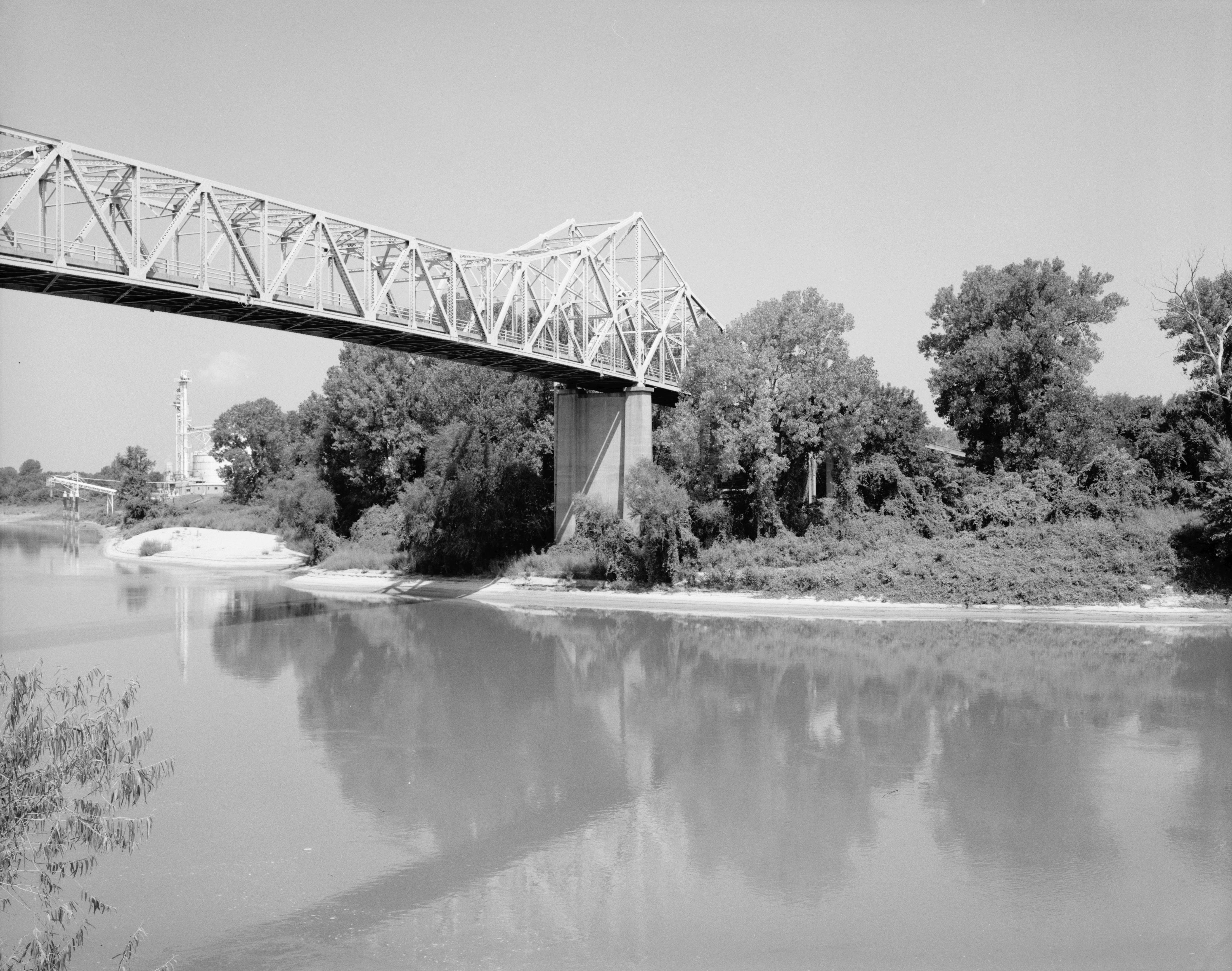 Eastern (upstream) side of the Newport Bridge, which carries U.S. Route 67 over the White River near Newport in Jackson County, Arkansas, United States. Built in 1930, this Warren cantilever bridge is listed on the National Register of Historic Places.